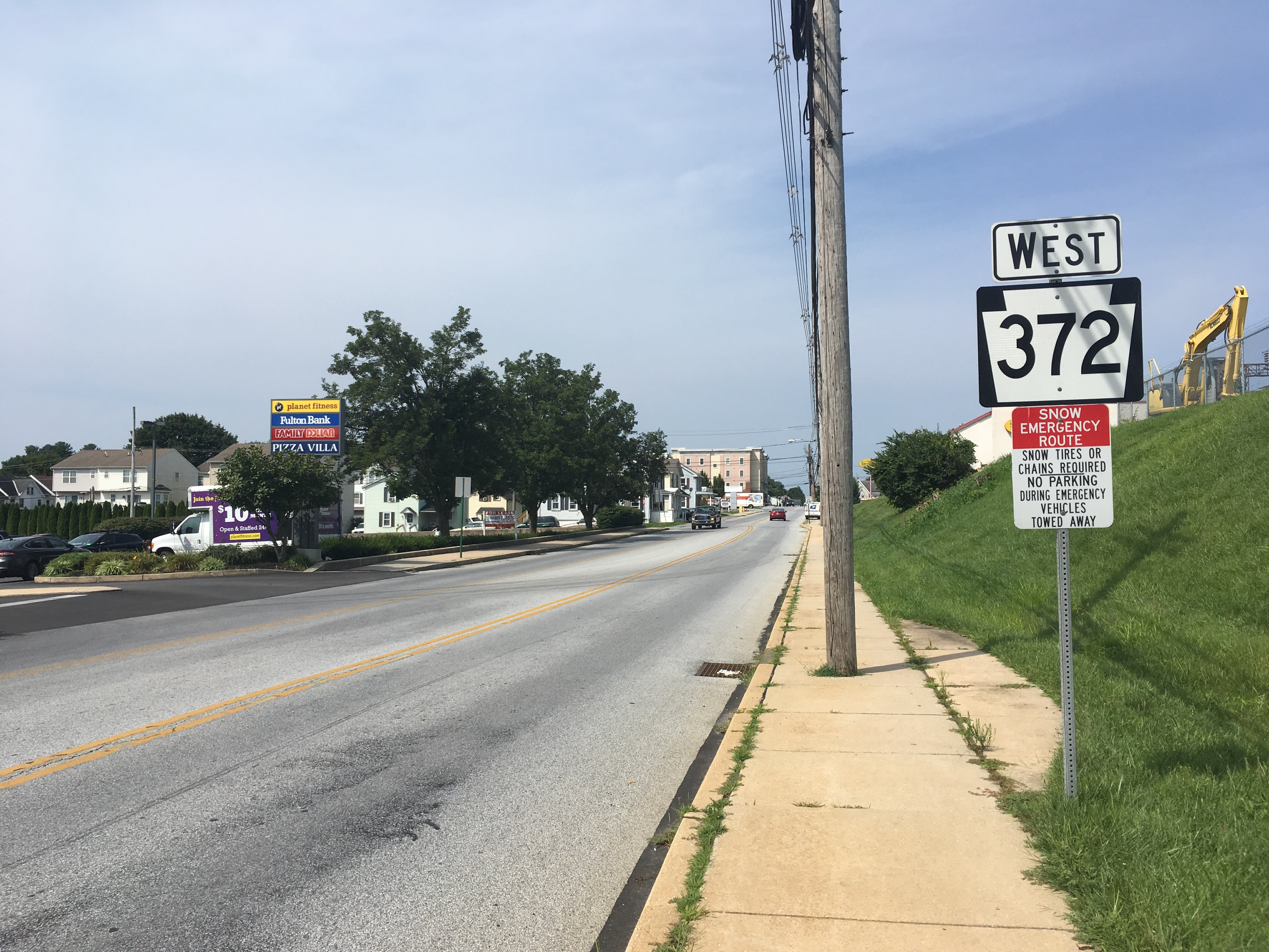 Westbound Pennsylvania Route 372 (First Avenue) past the intersection with Pennsylvania Route 10 (Church Street) in Parkesburg, Pennsylvania